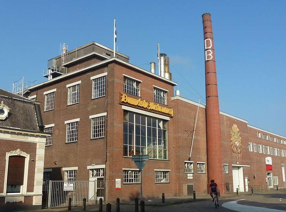 Crop of File:Dommelsche Bierbrouwerij-2.jpg